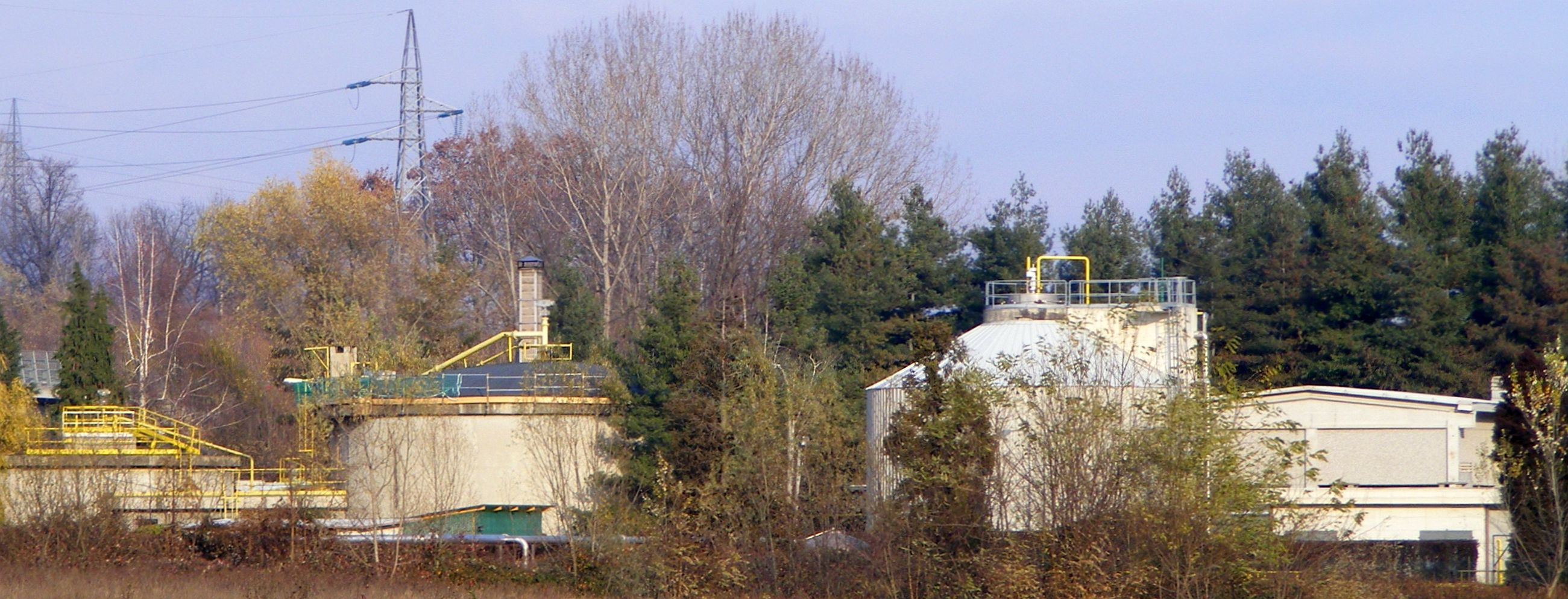 CORDAR wastewater treatment plant of Biella / Ponderano (BI)